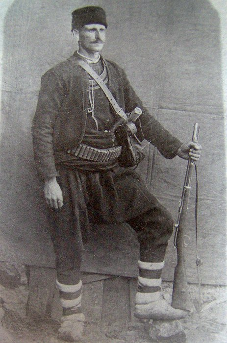 A balkandzhiya (balkanji, "man of the mountains") from Lesidren, near Teteven, Bulgaria. 1908.